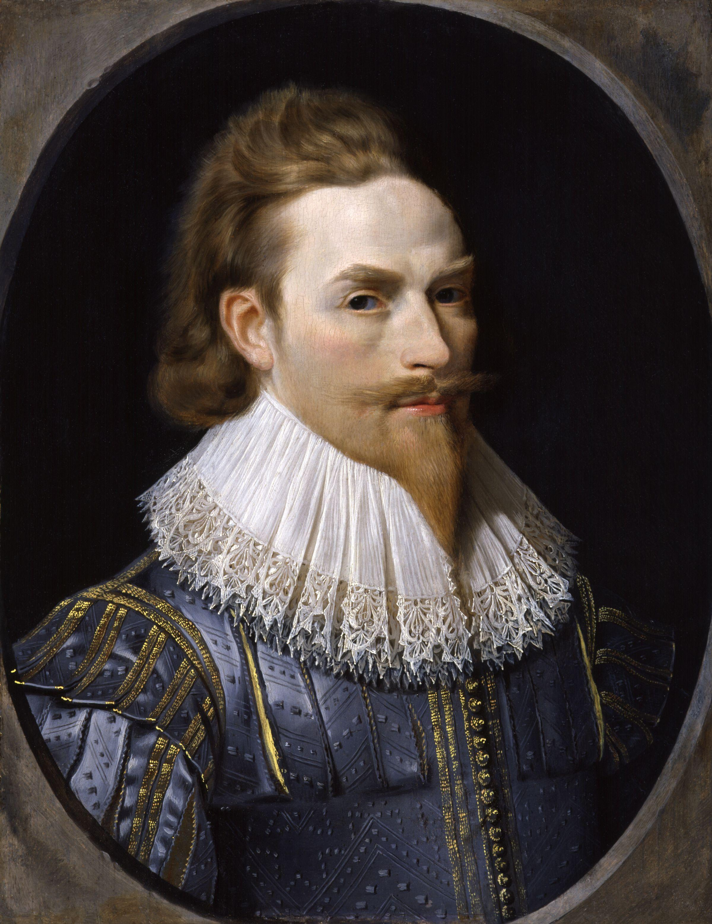 Sir Nathaniel Bacon, by Sir Nathaniel Bacon (died 1627). All images in this batch have been confirmed as author died before 1939 according to the official death date listed by the NPG.